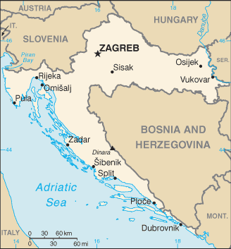 Map of Croatia